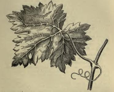 The tineina of southern Europe: Holocacista rivillei